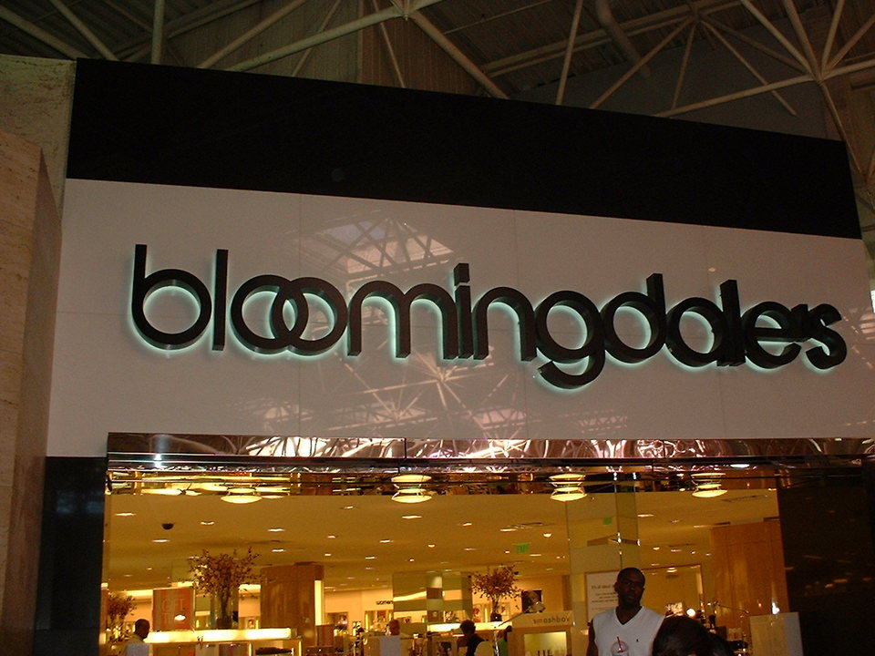 Bloomingdale's in the Lenox Square mall, Atlanta.